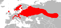 Range of the European beaver (Castor fiber)